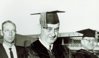 US President Johnson, flanked by Secret Service agent Rufus Youngblood and FAU President Kenneth Williams, walk to the outdoor stage, where the President addressed a crowd of about 15,000. President Johnson received the school's first honorary degree.